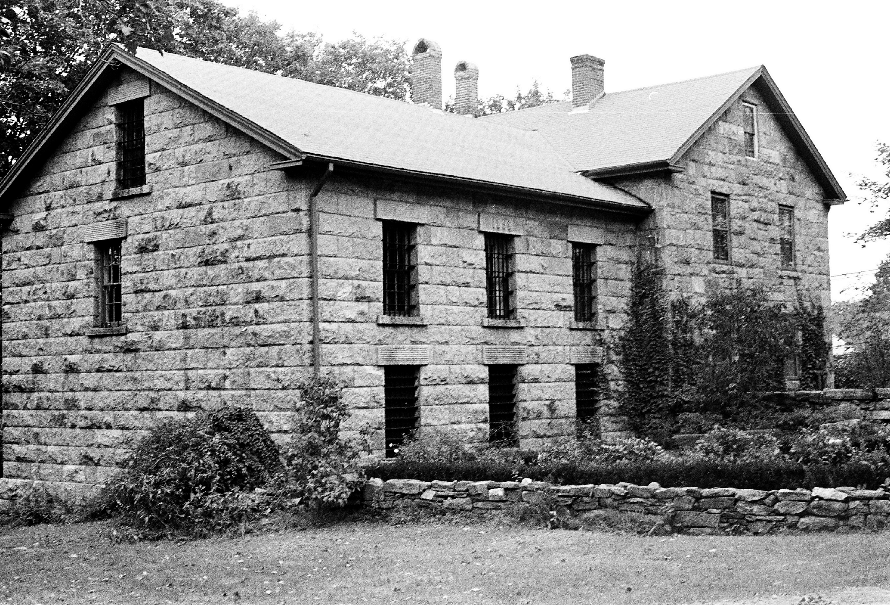 Pettaquamscutt Historical Society Museum located in Kingston, RI, rear view of the old Washington County Jail added 1858 to the front building built 1792. rear view of back building